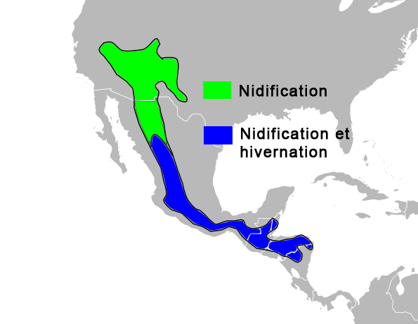 Breeding and wintering distribution of Grace's Warbler (Dendroica graciae)